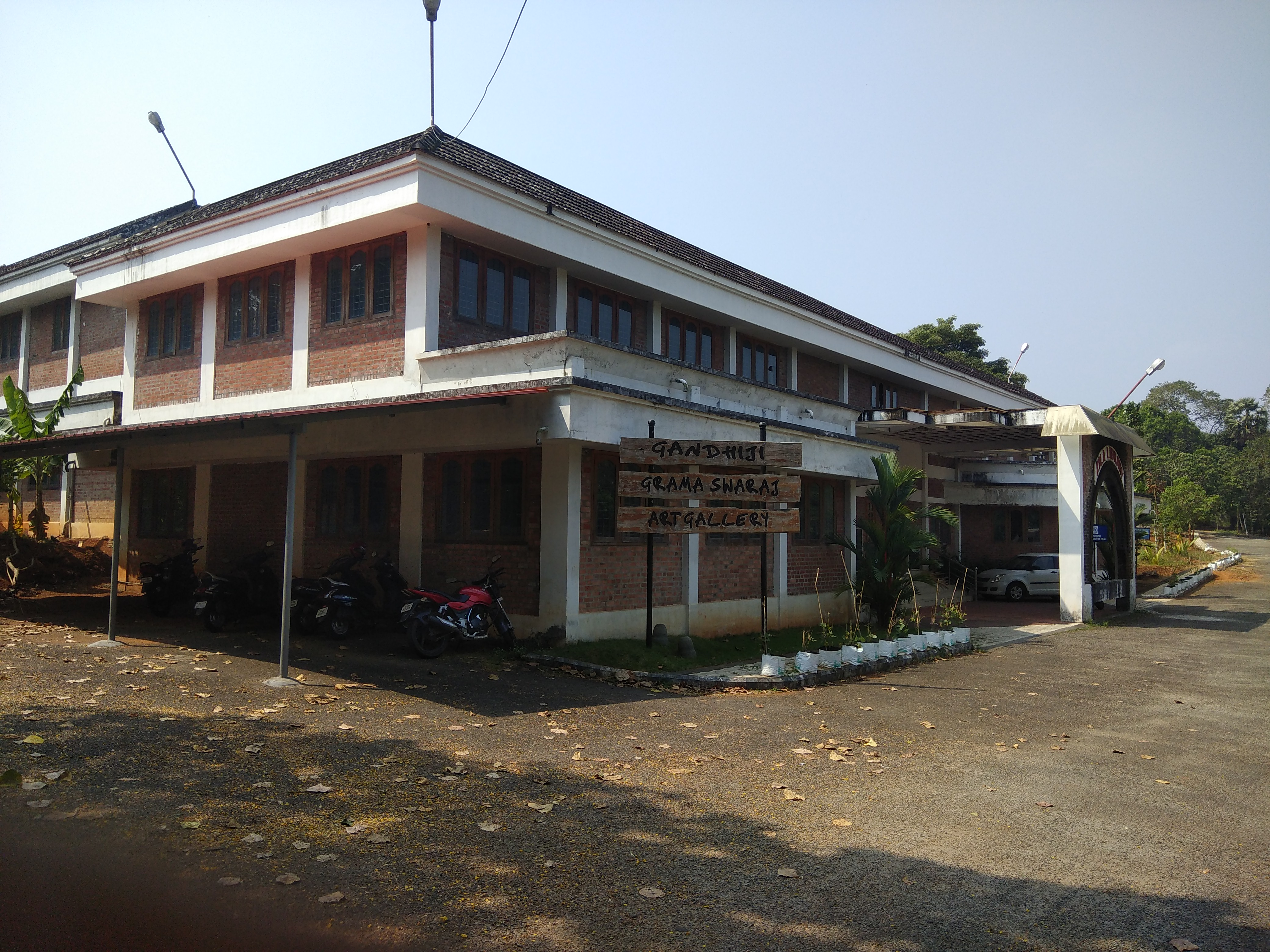 Kerala Institute of Local Administration Library building